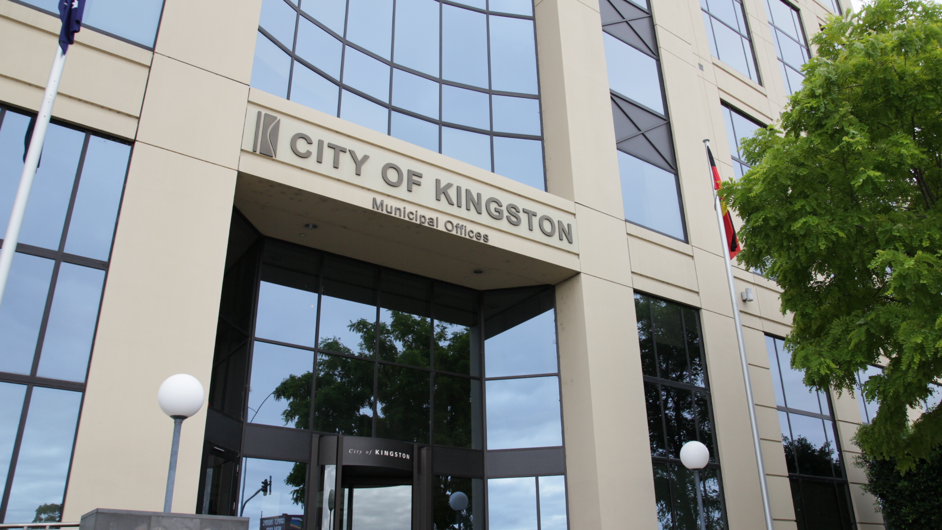 The current City of Kingston headquarters in Cheltenham, Victoria.